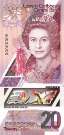 East caribbean states eccb 20 dollar